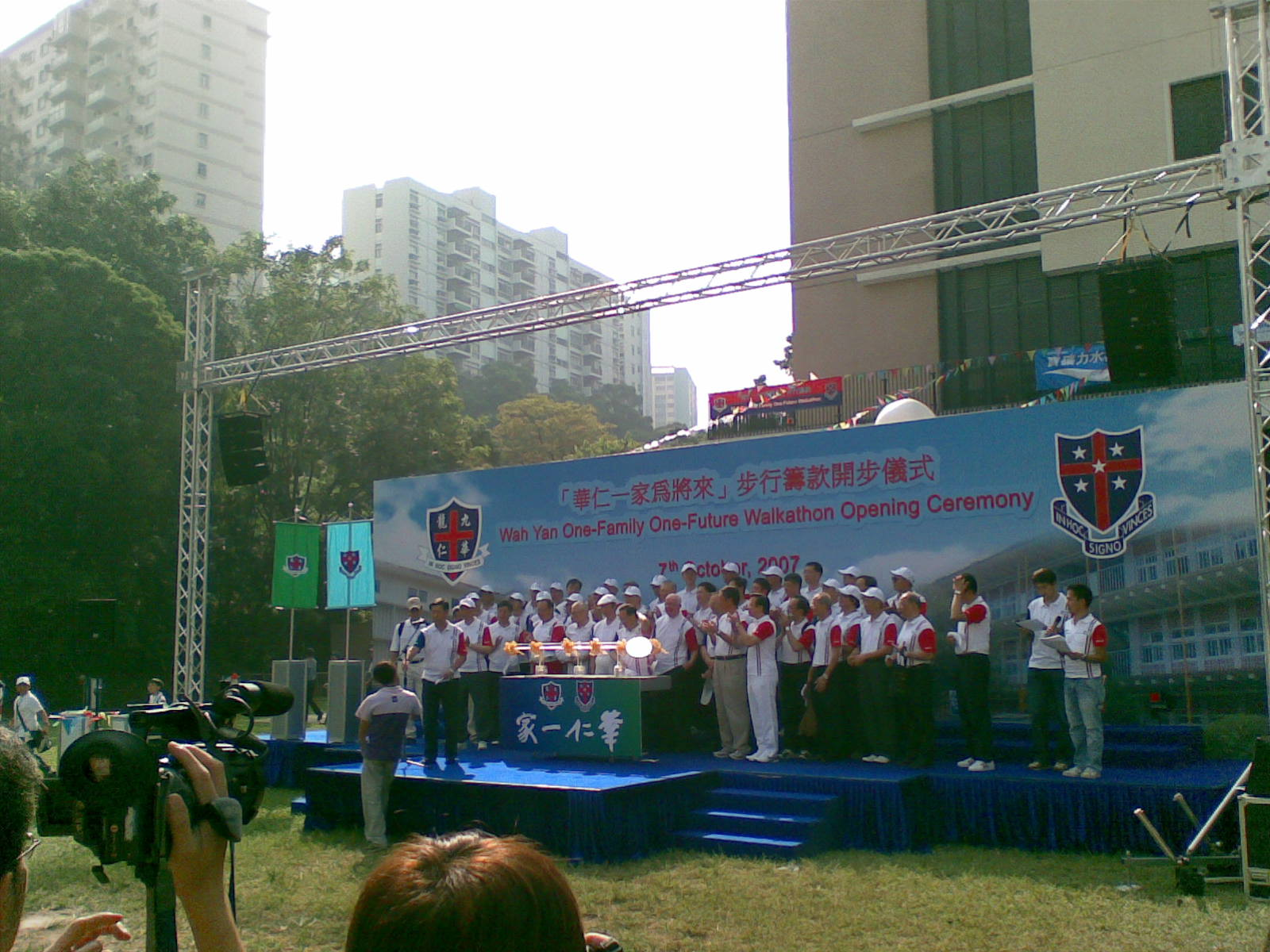 Opening ceremony of Wah Yan One Family Walkathon